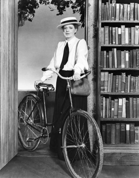 Promotional photograph of Ethel Barrymore in the original Broadway production of The Corn Is Green